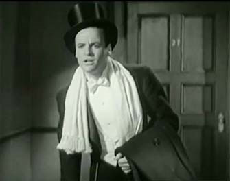 Still of John Darrow from the American drama film The Lady Refuses (1931).